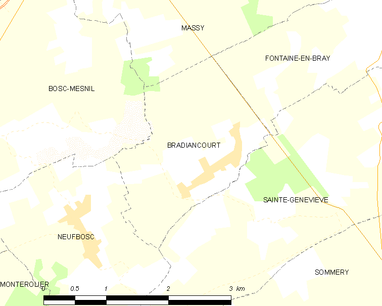 Map of French municipality Bradiancourt